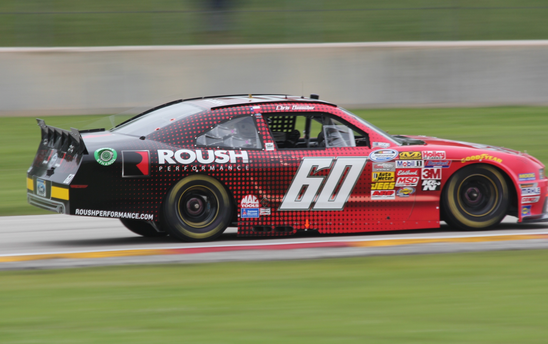 The passenger side of Chris Buescher Nationwide car during the 2014 Gardner Denver 200 at Road America. Taken racing in turn 13.